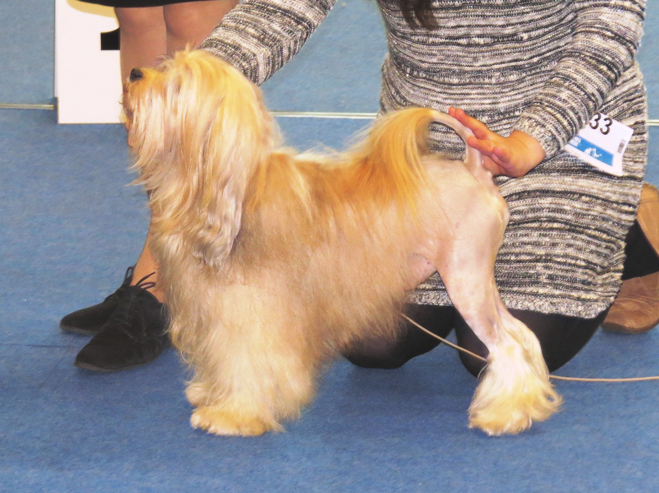 Koira 2013 Helsinki 13-15/12/2013